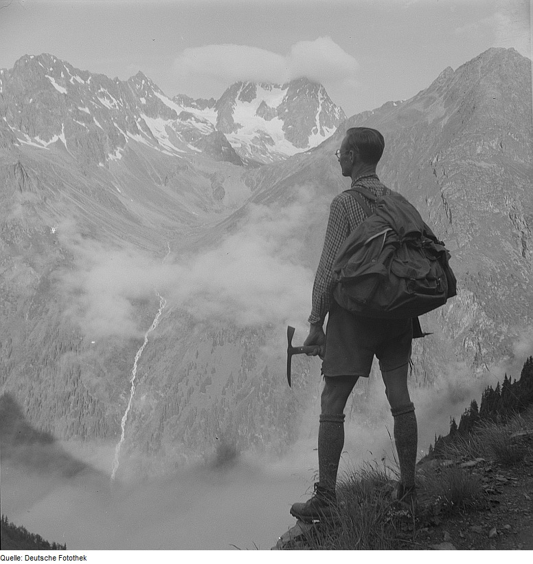 Hiker in the Ötzal Alps, looking west to Watzespitze (3532 m, center, summit behind clouds) and Hoherkogel (3047 m) and Seekarlesschneid (3207 m) on the left, Parstleskogel (2740 m) on the right.